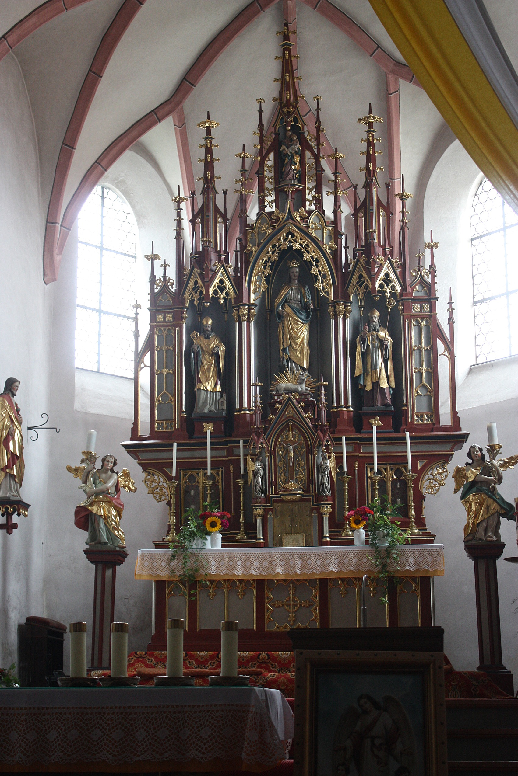 Kastl bei Kemnath, the village church, the altar